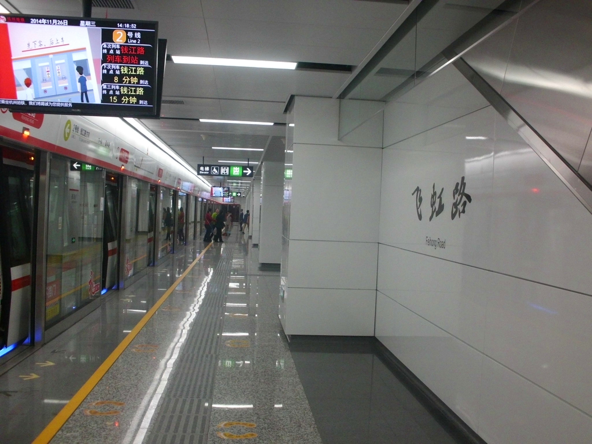 Feihong Road Station